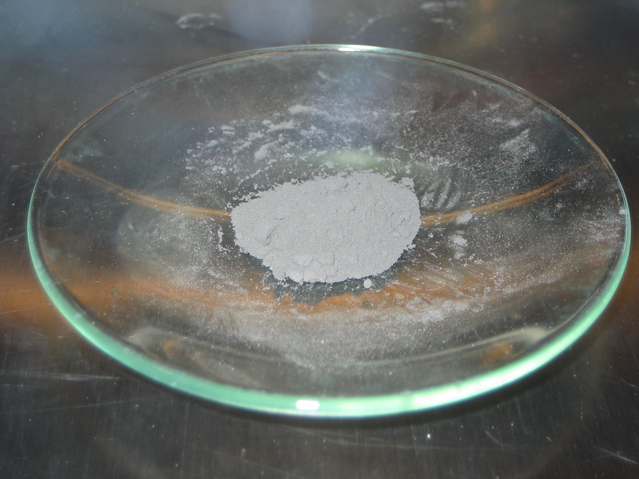 Dry Raney Nickel taken inside a glovebox under nitrogen atmosphere.